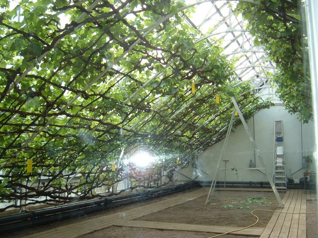 The Great Vine — a Grape vine (Vitis species) planted by Lancelot "Capability" Brown in 1768. The vine's trunk and branches are inside the greenhouse, while the roots are outside under a patch of ground kept fallow so that other plants do not take the nutrients. "The oldest grape vine in the world." (?)